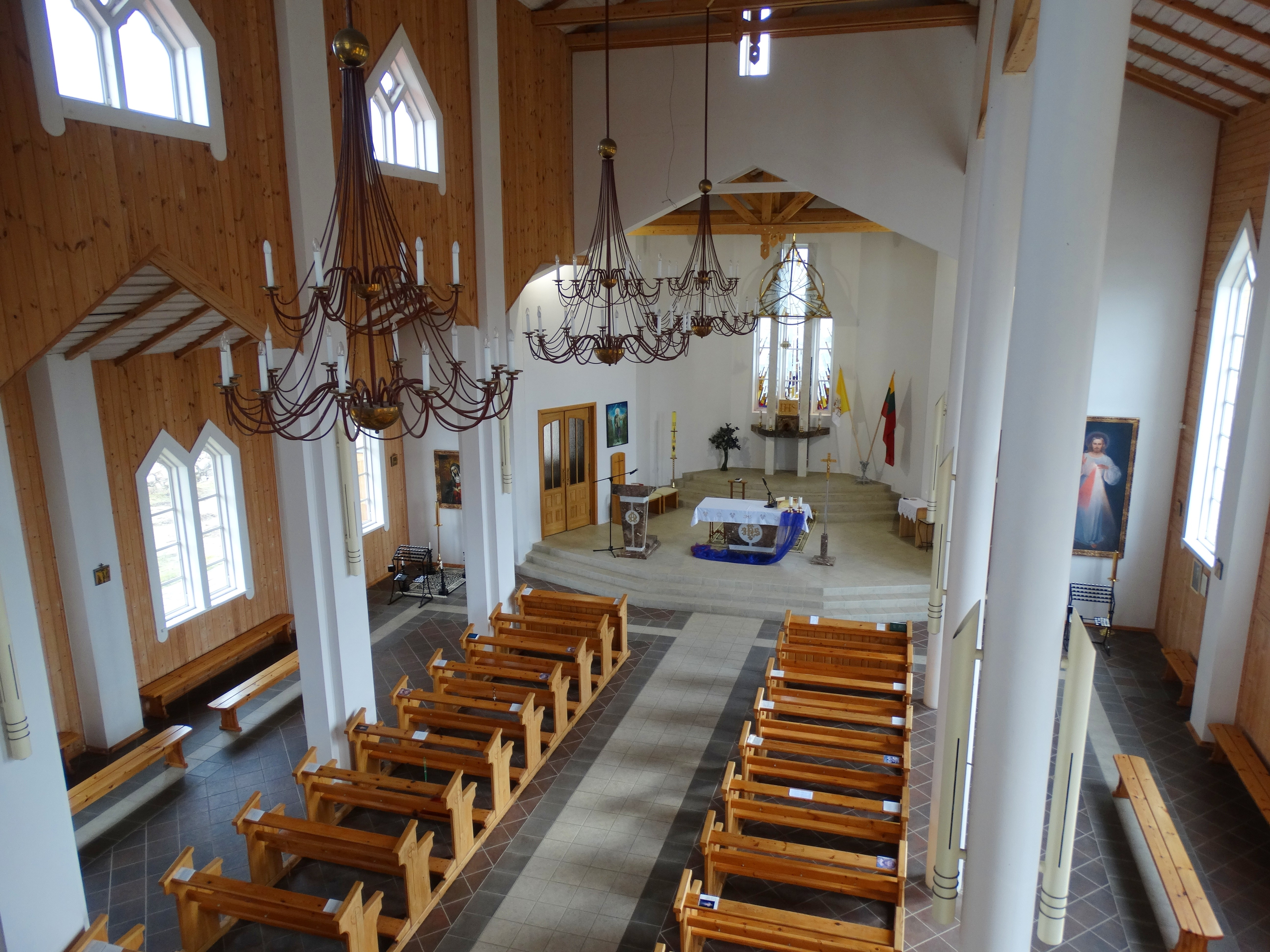 Pakalniai church, interior, Utena district, Lithuania